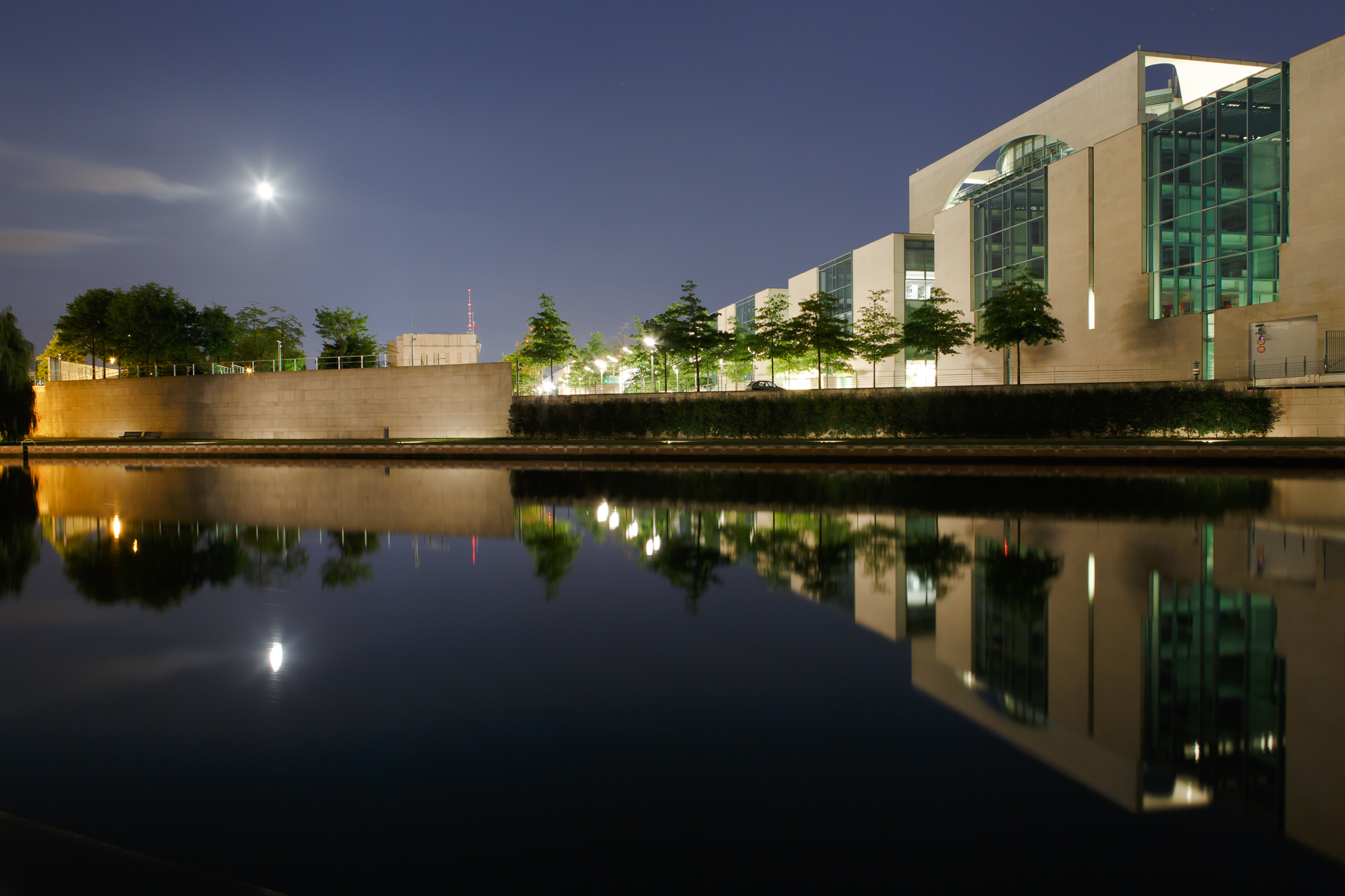 Berlin - Federal Chancellery - night - 2013